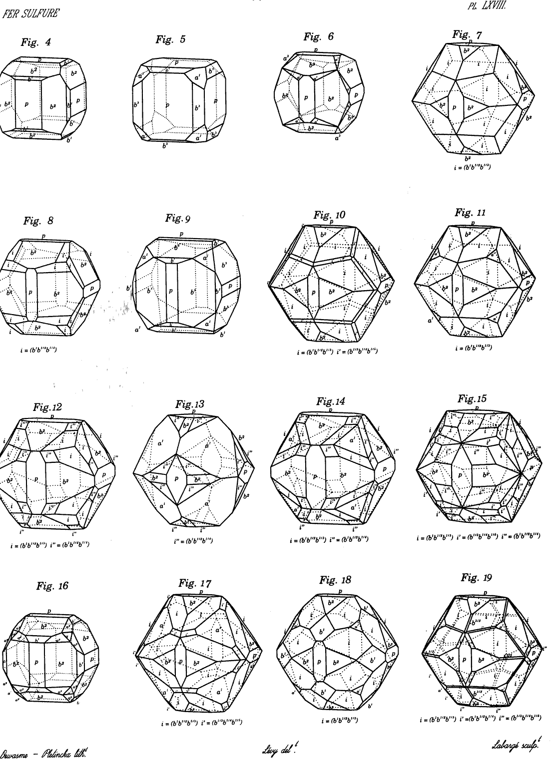 Crystallographic drawing of iron pyrites, from the Atlas volume of Description d'une collection de minéraux formée par M. Henri Heuland et appartenant à M. Ch. Hampden Turner, de Rooknest dans le comté de Surrey en Angleterre (1837–8).